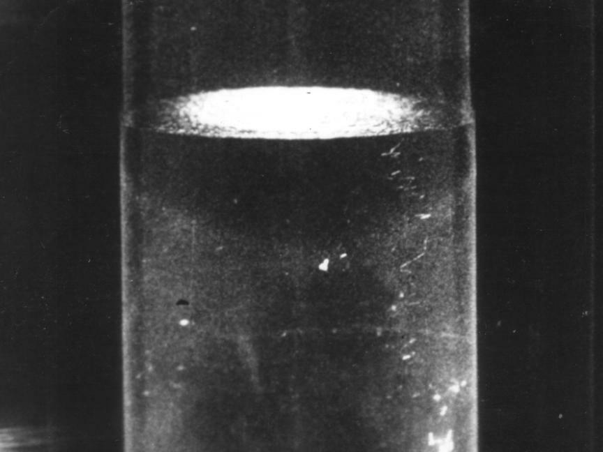 The temperature of the liquid helium in this vacuum bottle is 2.2K(Lambda point) or less. There is no visible boiling (due to zero viscosity of superfluids). The liquid is in its Superfluid Phase.